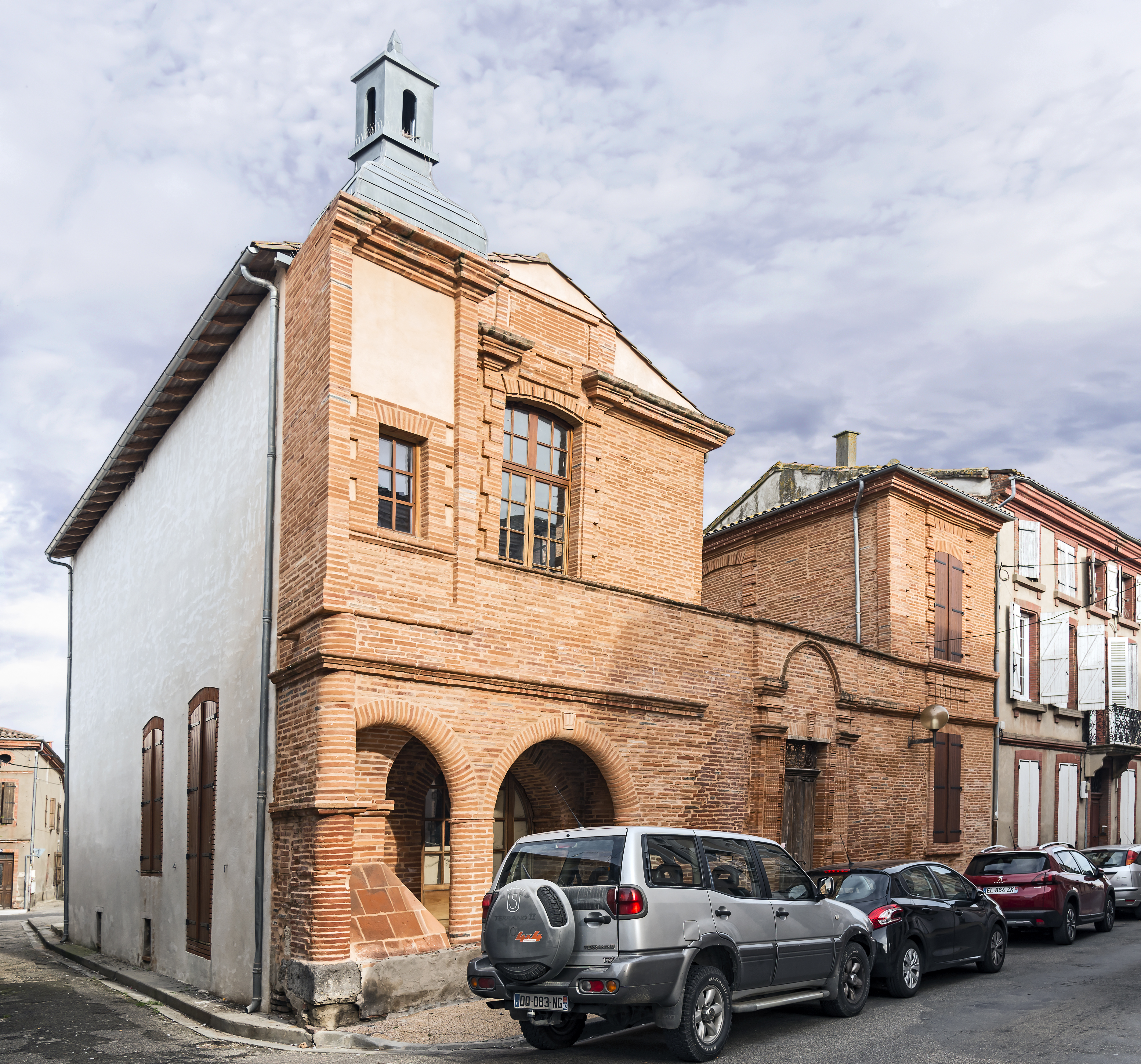 Castelsarrasin Tarn-et-Garonne, France - La maison italienne - Facade on rue du Collège.